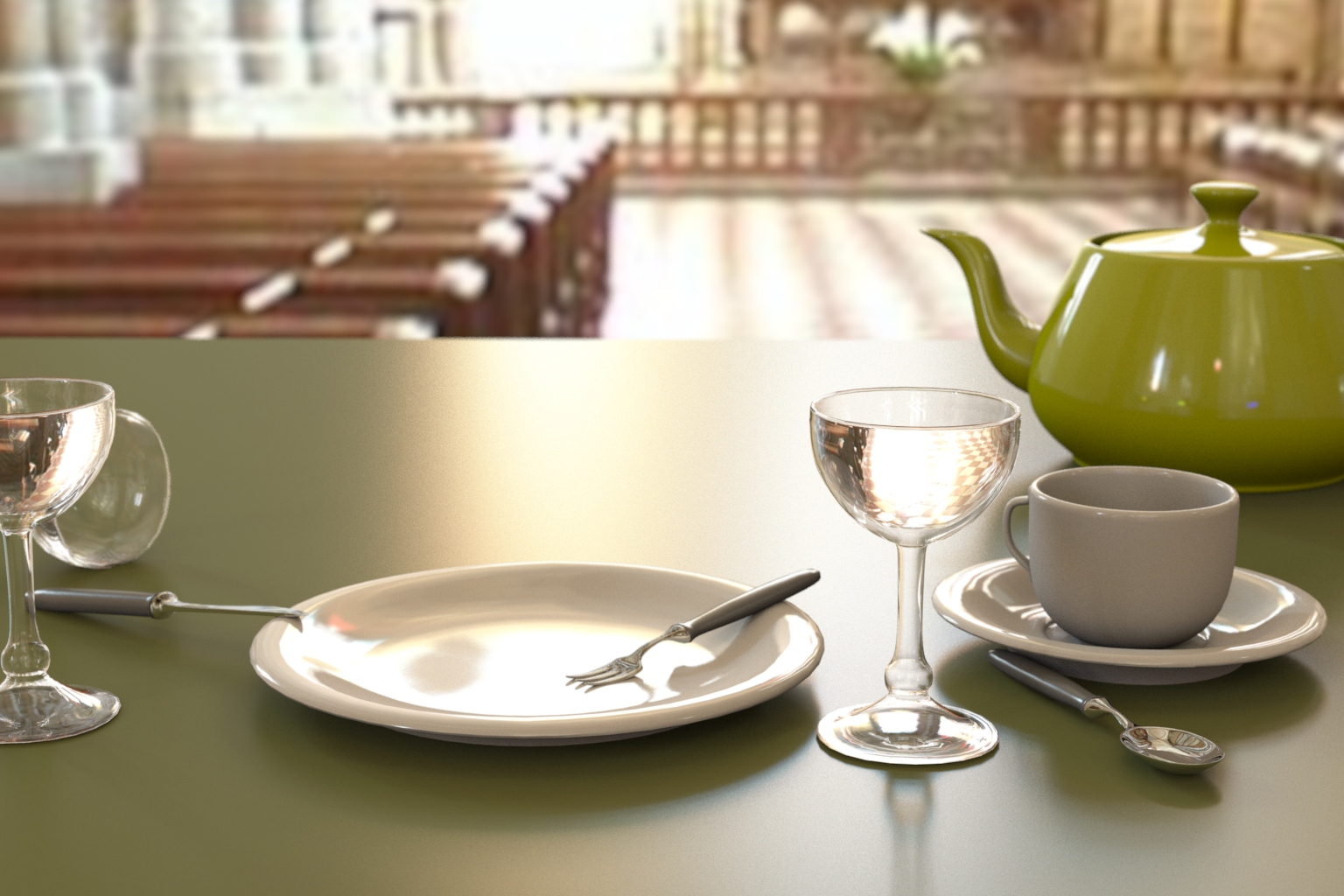 Cutlery and china geometry, and environment map are by Christian Bauer: [Tessellation artifacts are a little annoying...]